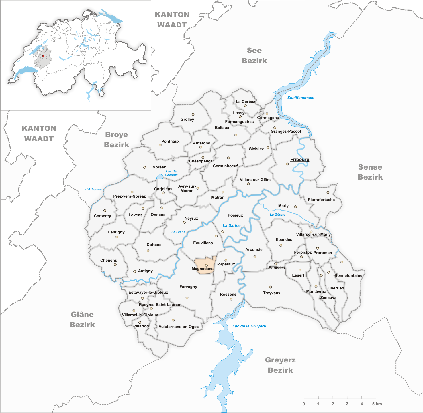 Municipality Magnedens Artist: Tschubby